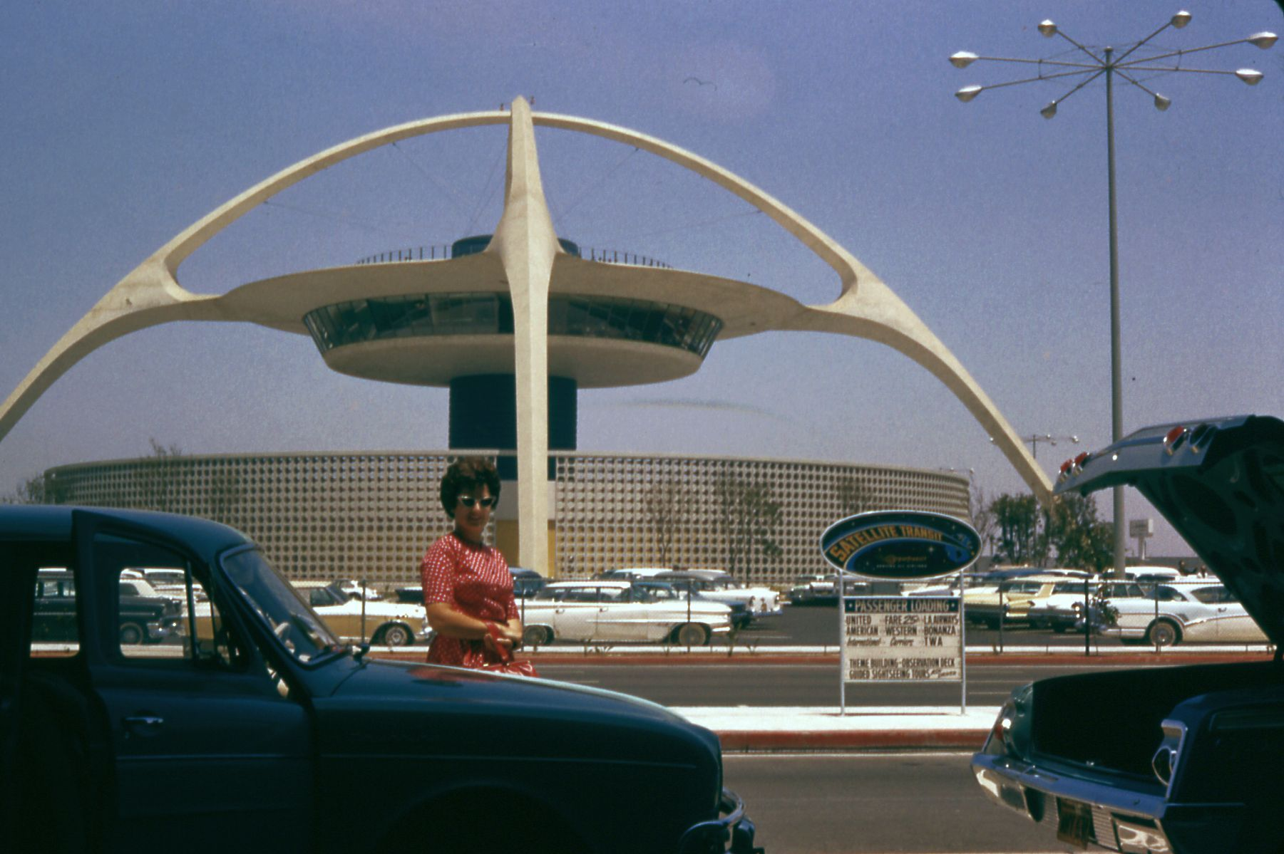 The Theme Building and Restaurant in the middle of the Los Angeles International Airport, July, 1962, before the modern control tower was constructed.